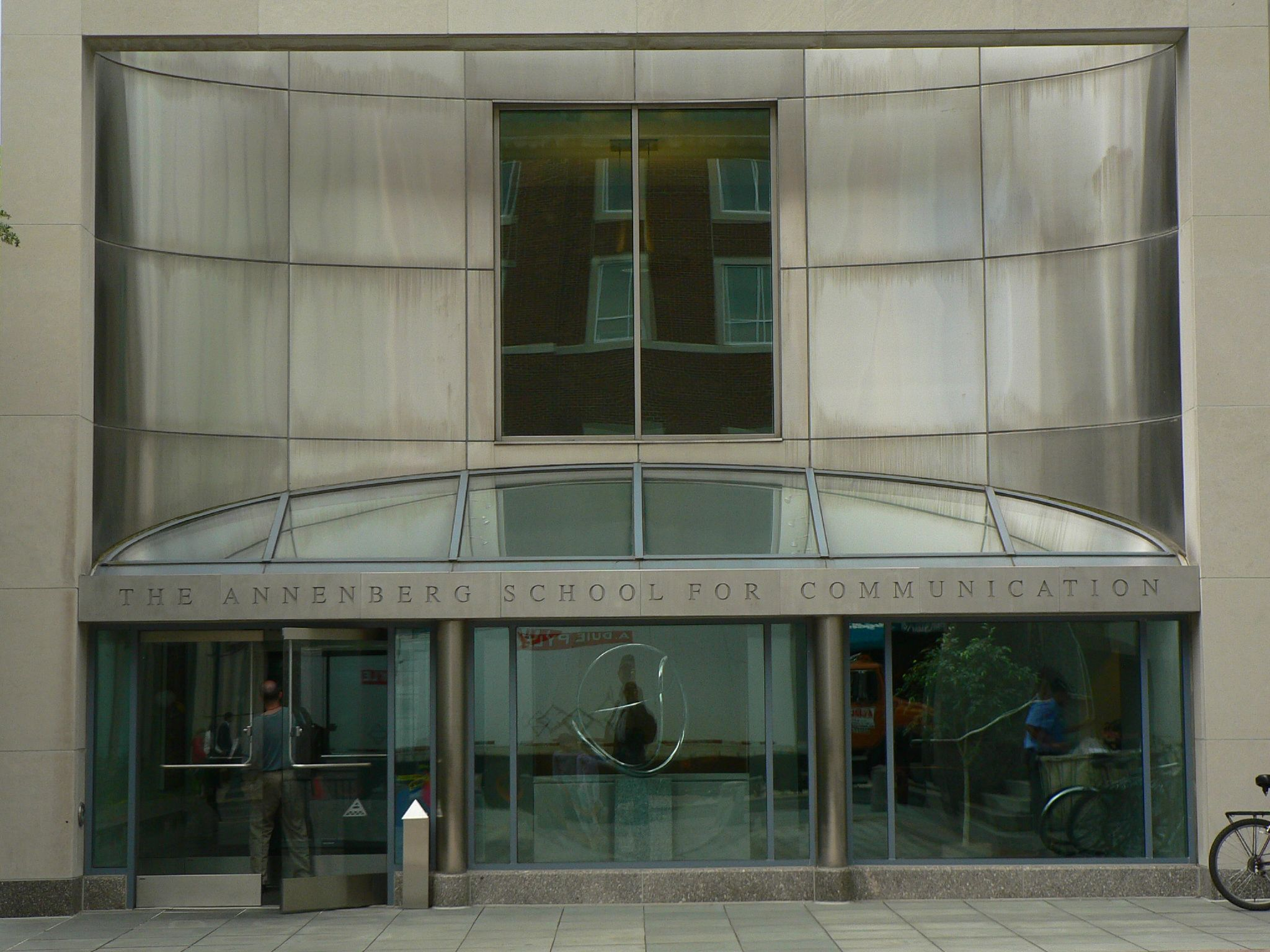 The front entrance to the ASC at Penn.